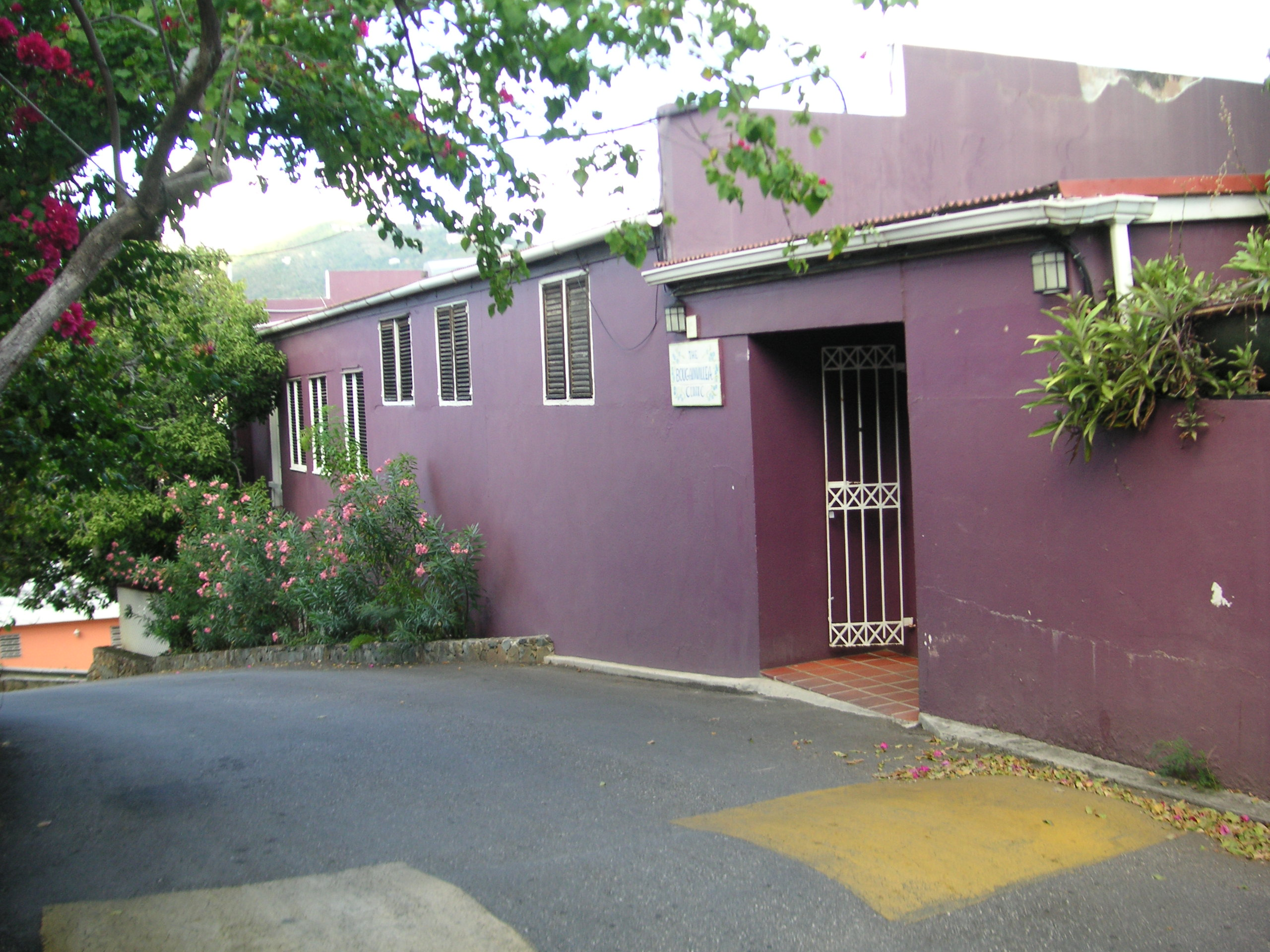 Photograph of the Bougainvillea clinic from Russell Hill, Road Town, Tortola, British Virgin Islands